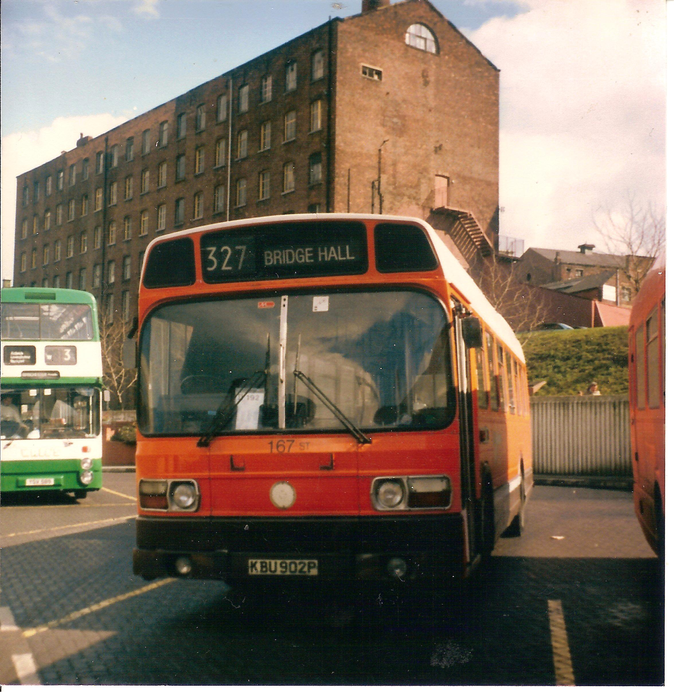 Seen on layover at Stockport Bus Station. preparing to operate the revised 327 and 328 services to Bridge Hall introduced on the 26th October 1986. Behind is an ex GMPTE Walls of Fallowfield Fleetline